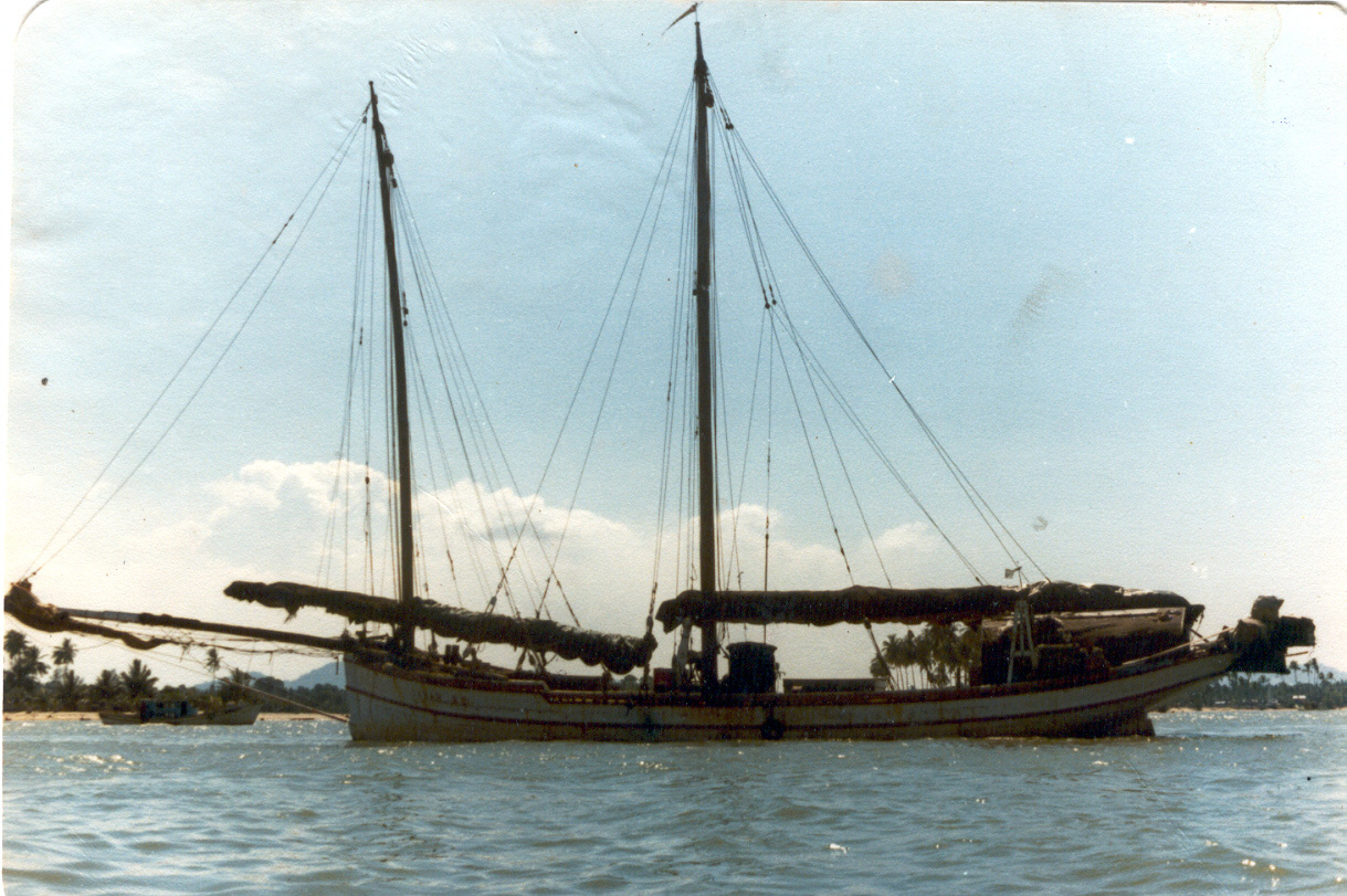 The Pinas Sabar (LOD 85') during her last working year. Kuala Terengganu, 1980